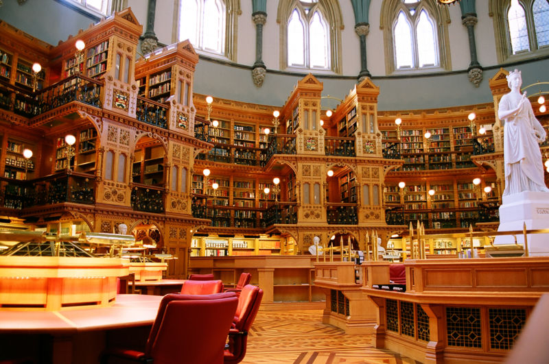 Library of Parliament reading room, Canada